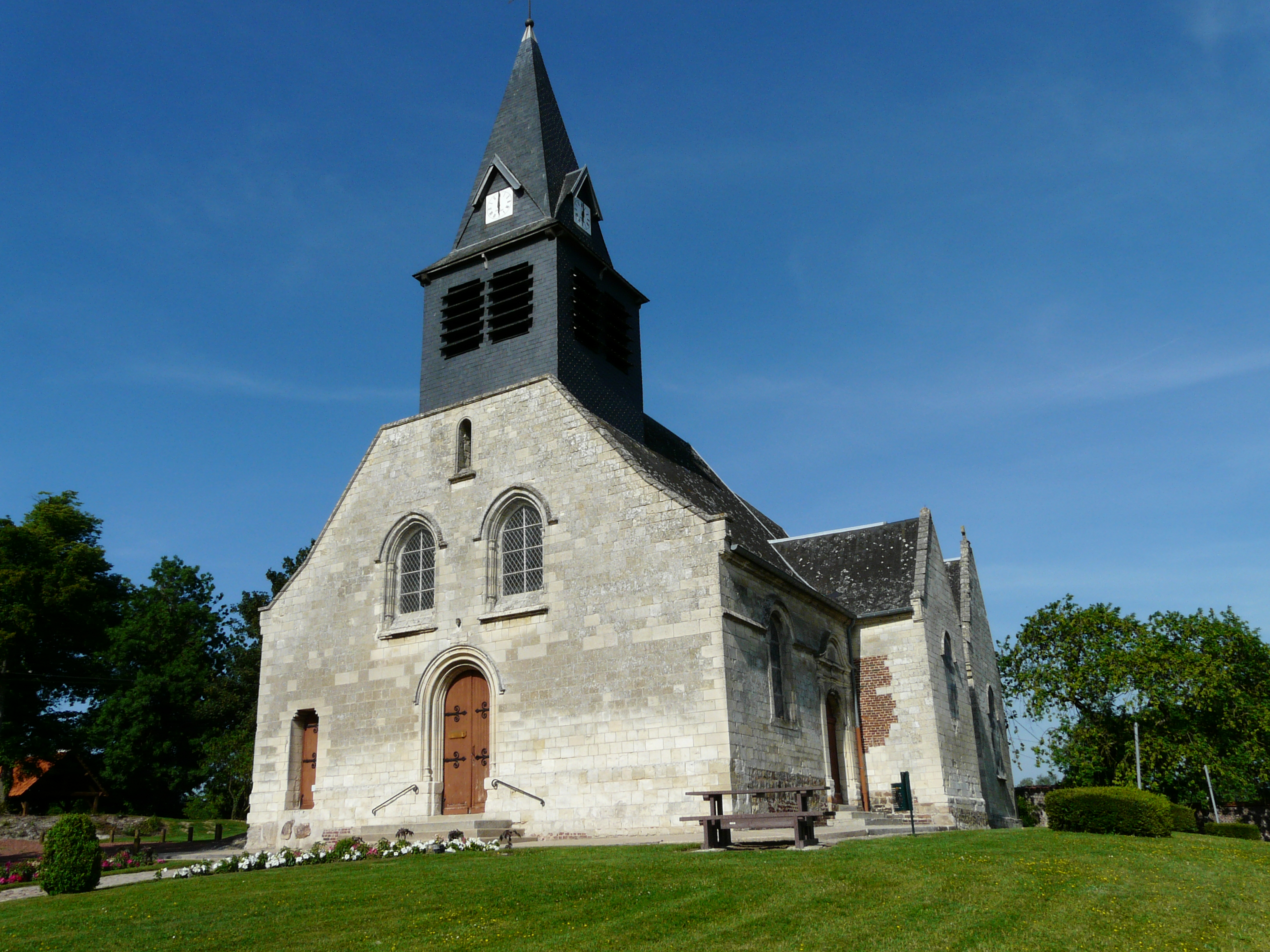 The church of Esnes